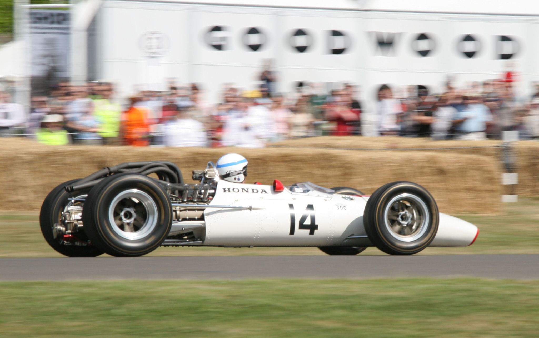 1967 Honda RA300 at the 2006 Goodwood Festival of Speed